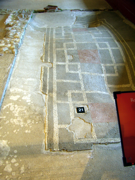 Fishbourne, Roman palace, mosaic of room N21